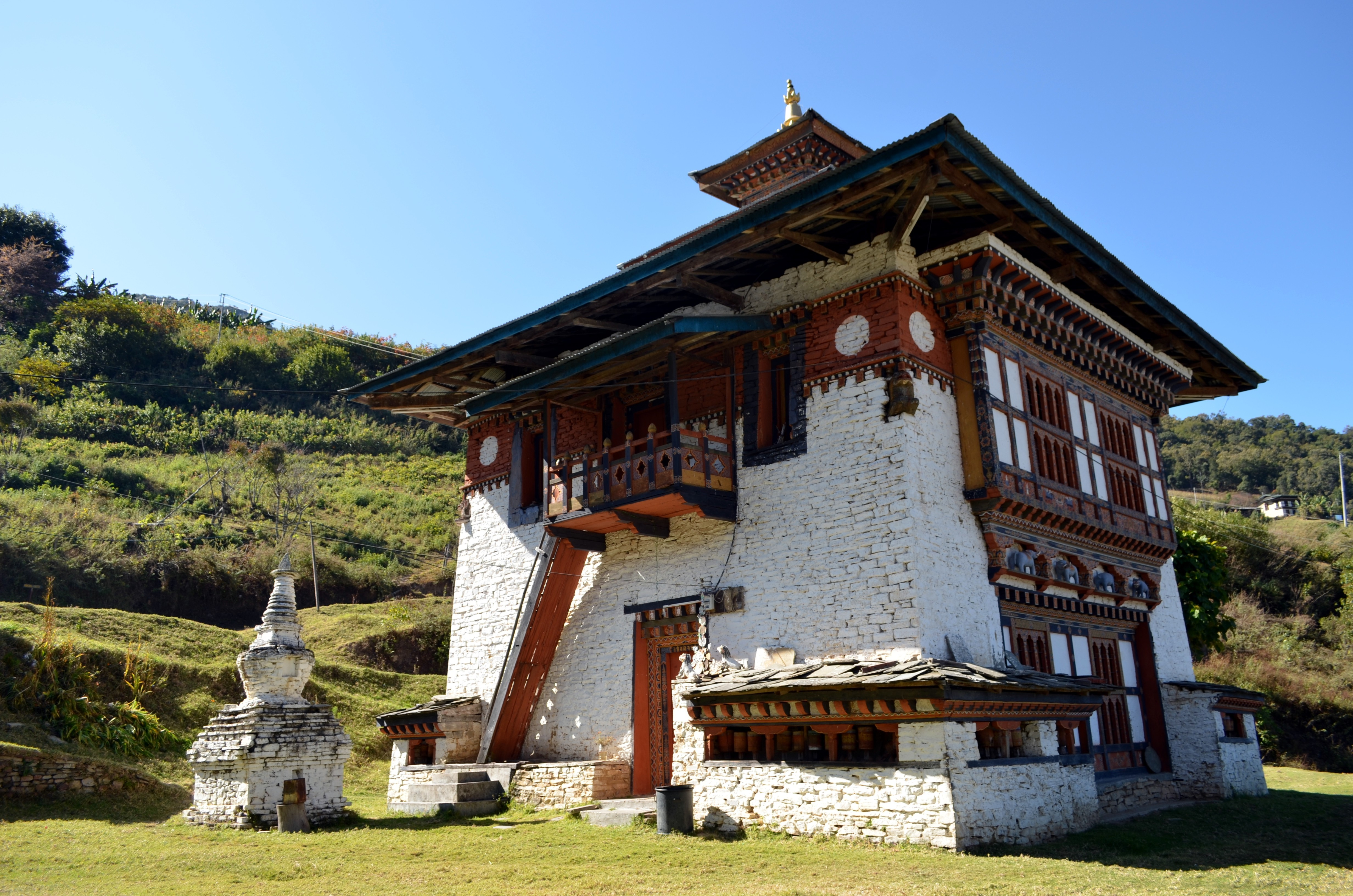 Yagang Lhakhang, Mongar Bhutan. Yagang Lhakhang, located in a small village on the outskirts of Mongar town, was built in the 16th century by Sangdag, the youngest son of Terton Pema Lingpa. This temple is renowned for its collection of religious treasures, masks, musical instruments, armour, ancient weapons, and xylograph blocks used for printing prayer flags and texts. The religious treasures include a statue of Sakyamuni Buddha discovered by Pema Lingpa in Mebartso, Bumthang; and a phurba made by Pema Lingpa himself. At this Lhakhang an annual three day ritual and masked dance festival (tshechu) is held on the 8th, 9th and 10th of the fifth month of the Bhutanese lunar calendar.